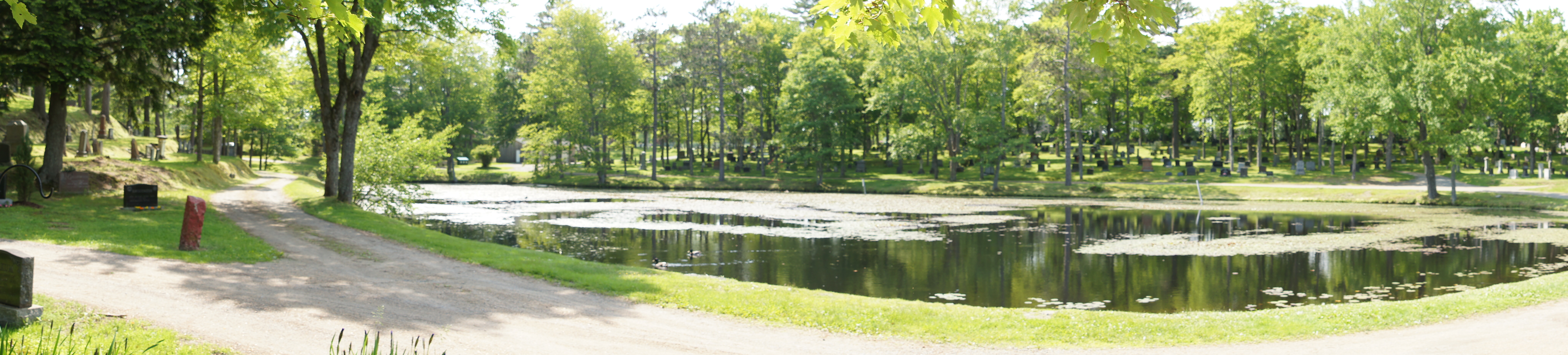 The Bridgwater Cemetery provides a park-like setting for quiet and reflection.